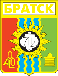 Bratsk (Irkutsk oblast), coat of arms (1980)